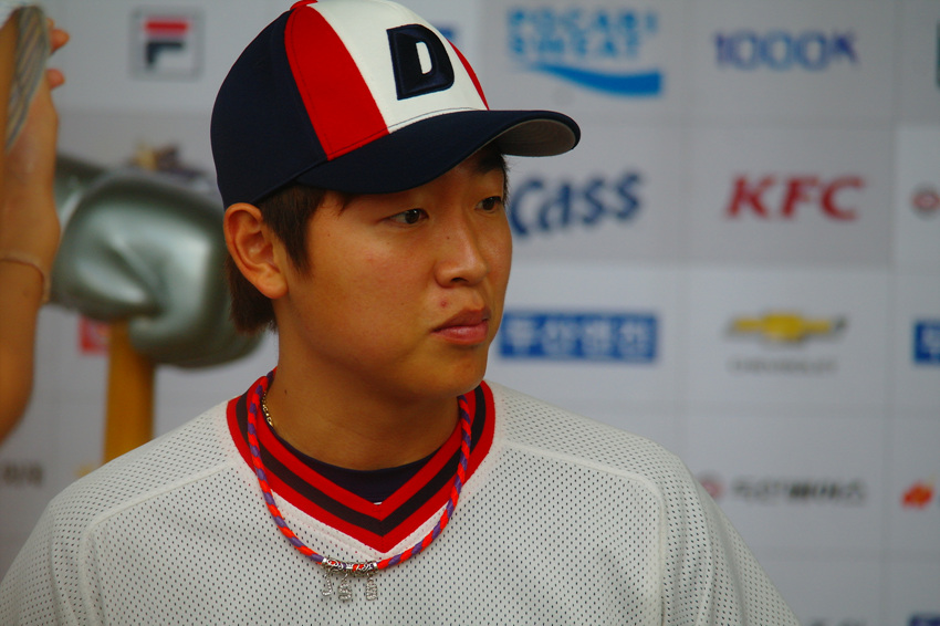 South Korean Baseballer, Jung Soo-bin